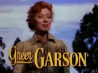 Cropped screenshot of Greer Garson from the trailer for the film Scandal at Scourie